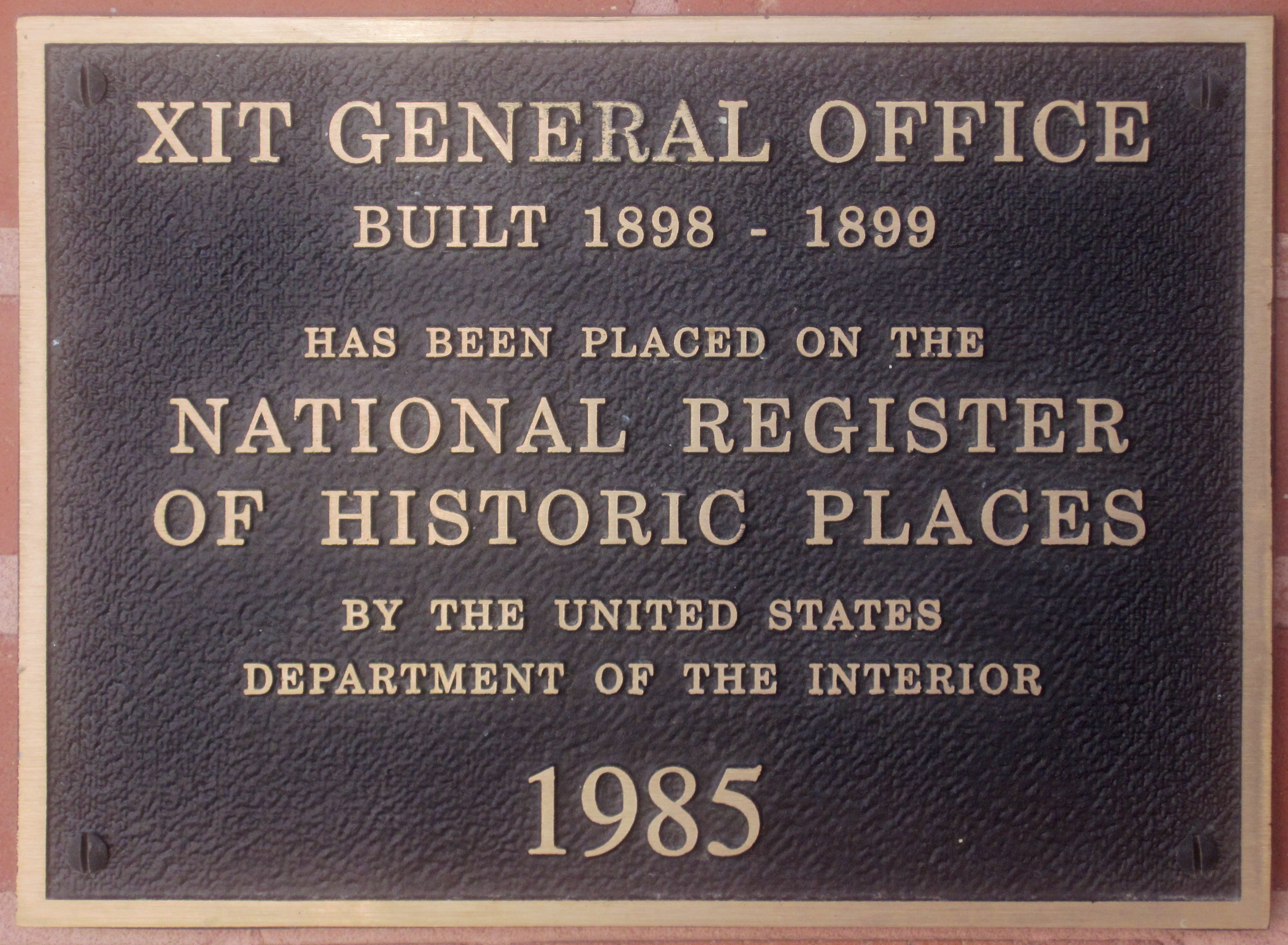 I took photo with Canon camera in Channing, TX.